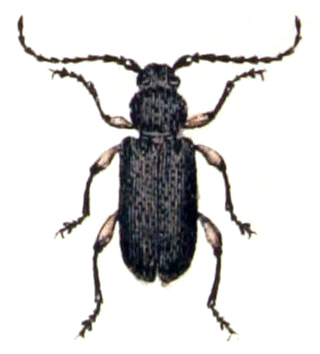 Ropalopus femoratus, from Calwer's Käferbuch, Table 35, Picture 7. Taxonomy was updated to 2008, using mostly the sites Fauna Europaea and BioLib. Please contact Sarefo if the determination is wrong!